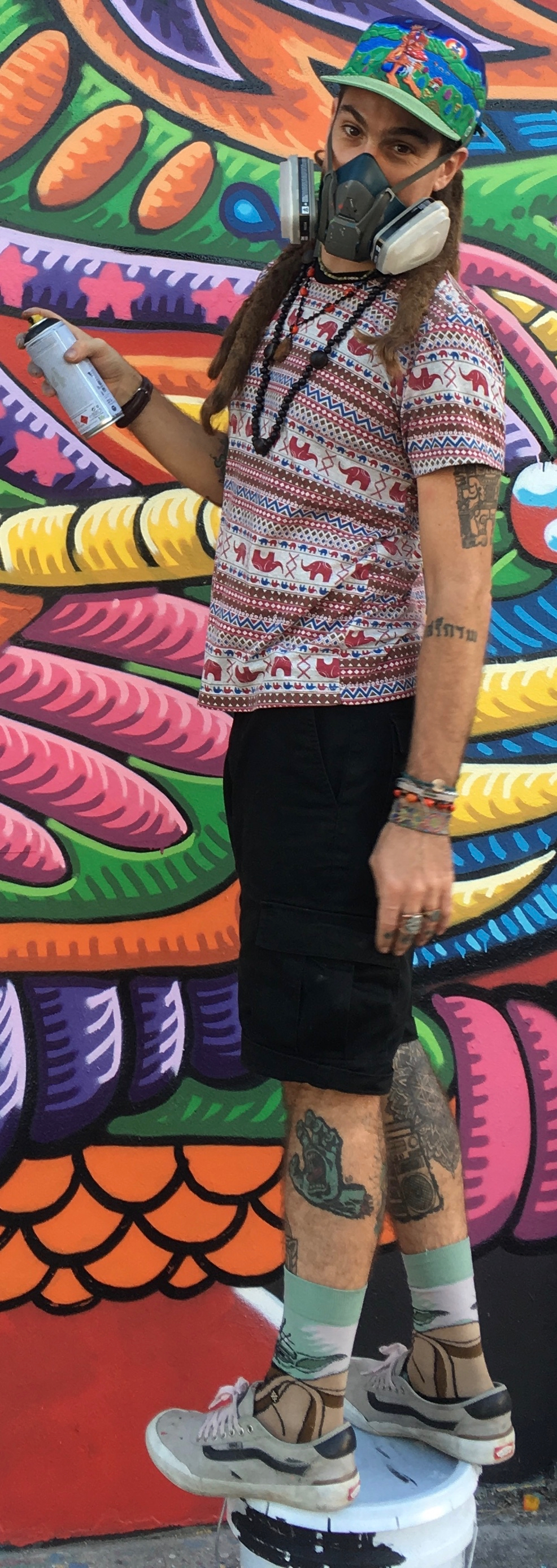 This mural was done in front of The Portal in Wynwood, Miami for Art Basel Miami 2018.